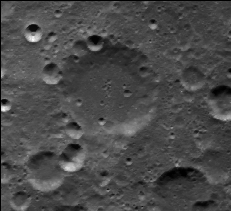 (Clementine Greyscale Basemap) Mercator projection dynamically created by USGS lunar Web Map Service.